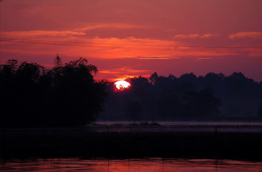 Photo by : Mr.Tawee Chartpangta